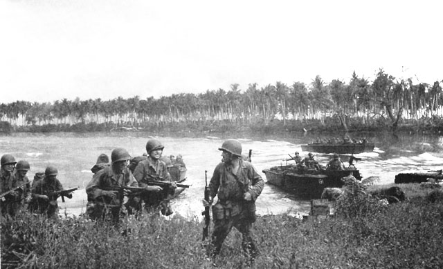 First Wave at Los Negros, Admiralty Islands. (DA photograph)